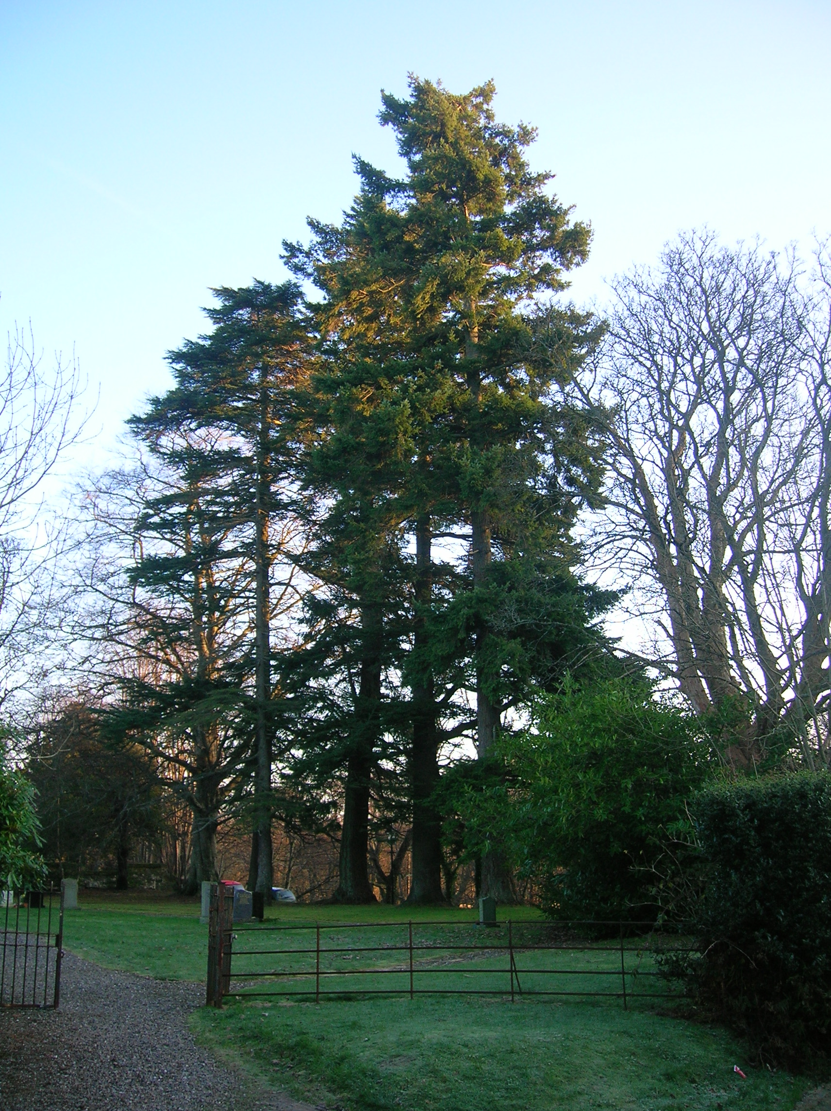 Mature Douglas Firs at Luss on Loch Lomond, Scotland.